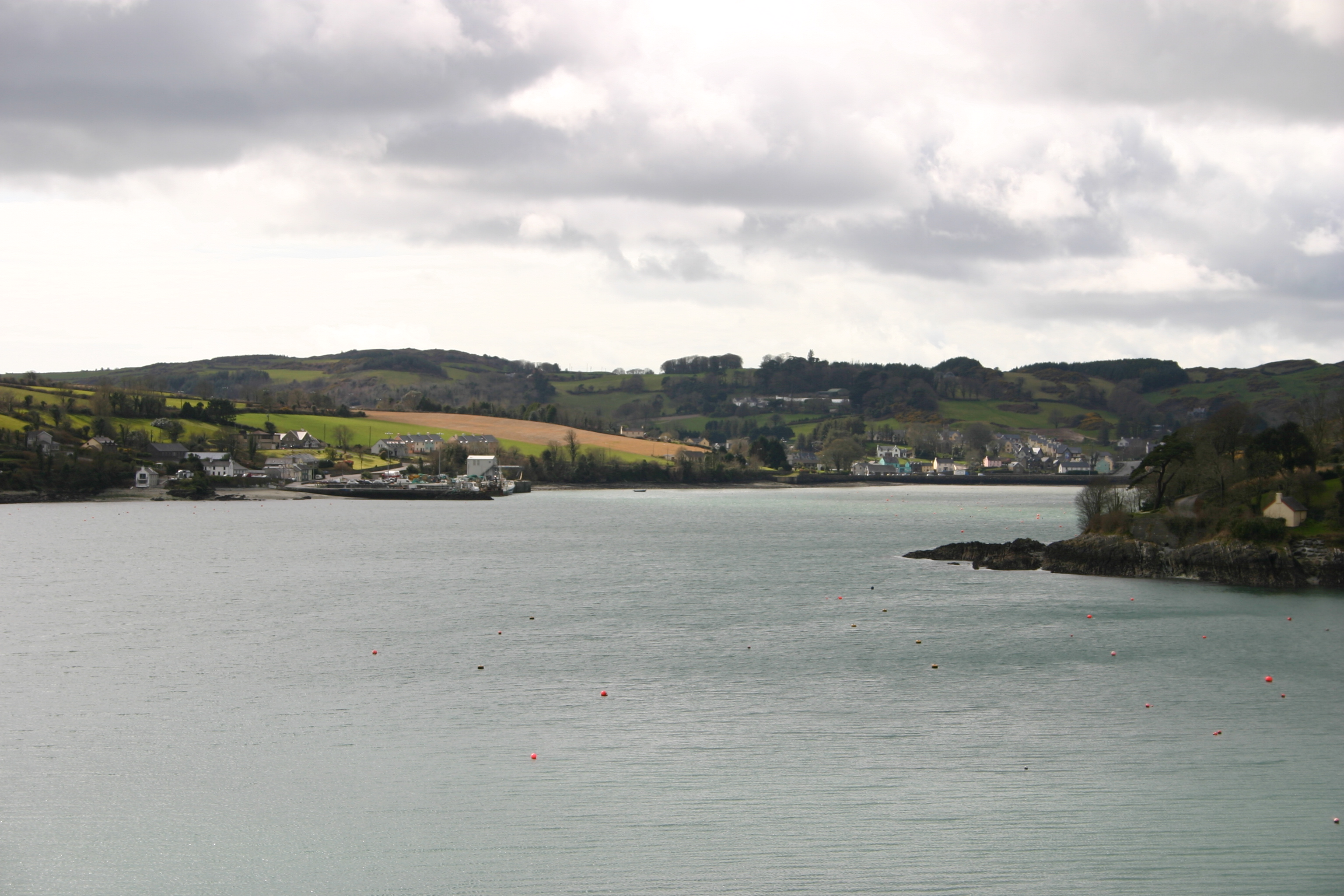 Union Hall as seen from Glandore